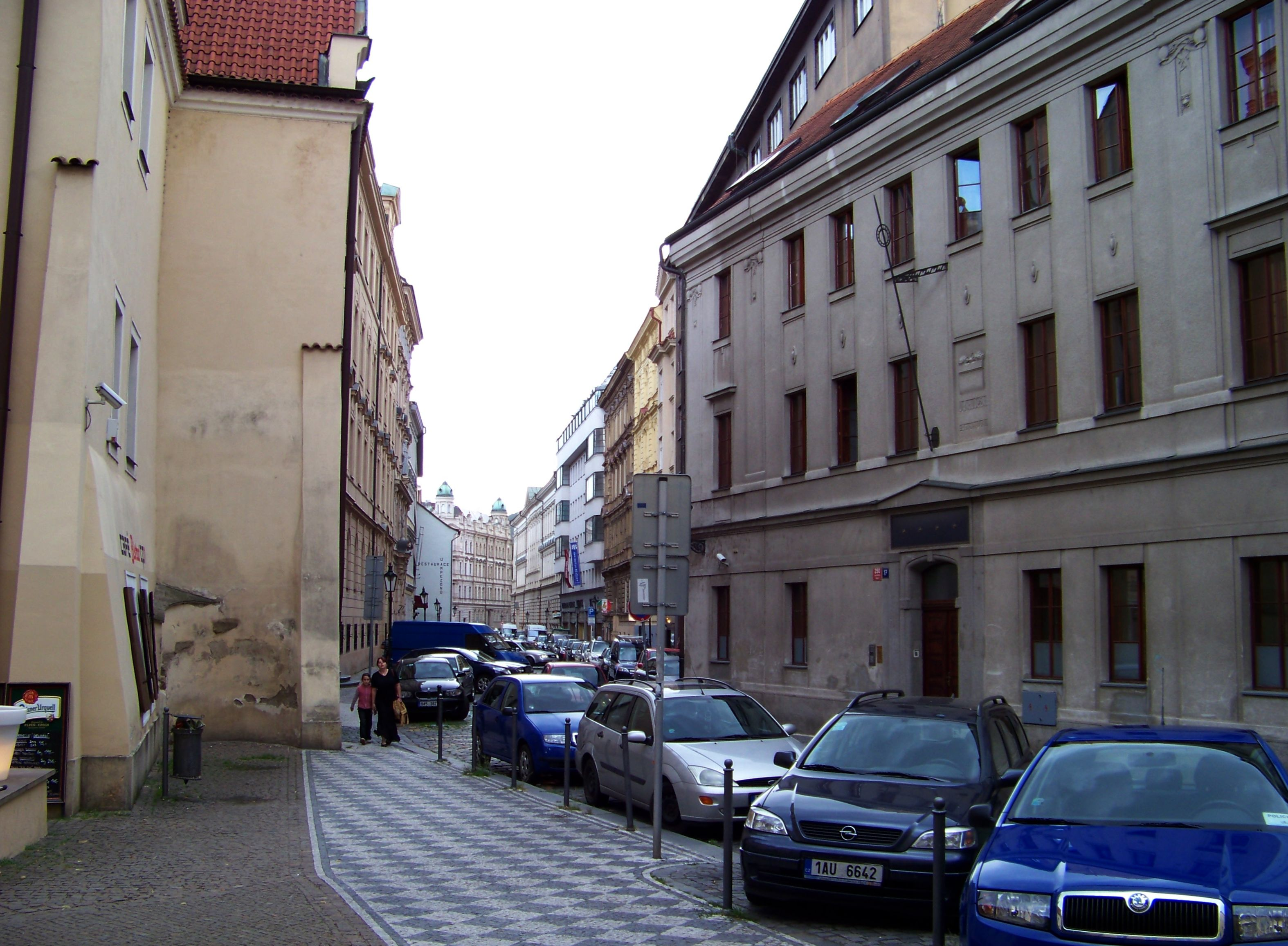 Prague-Old Town, the Czech Republic. Konviktská street.